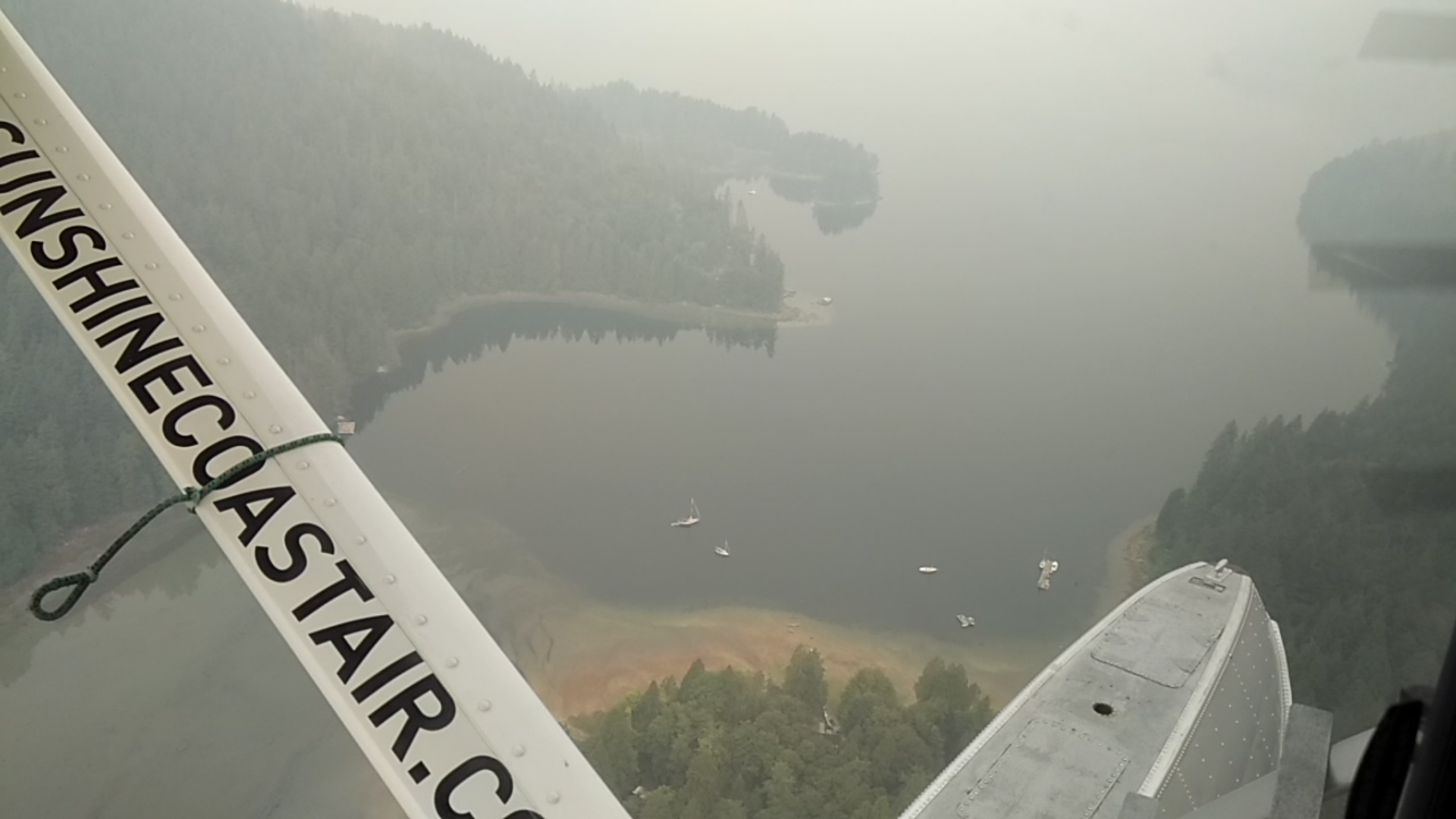 Storm Bay British Columbia as seen from the air through a haze of wildfire smoke.